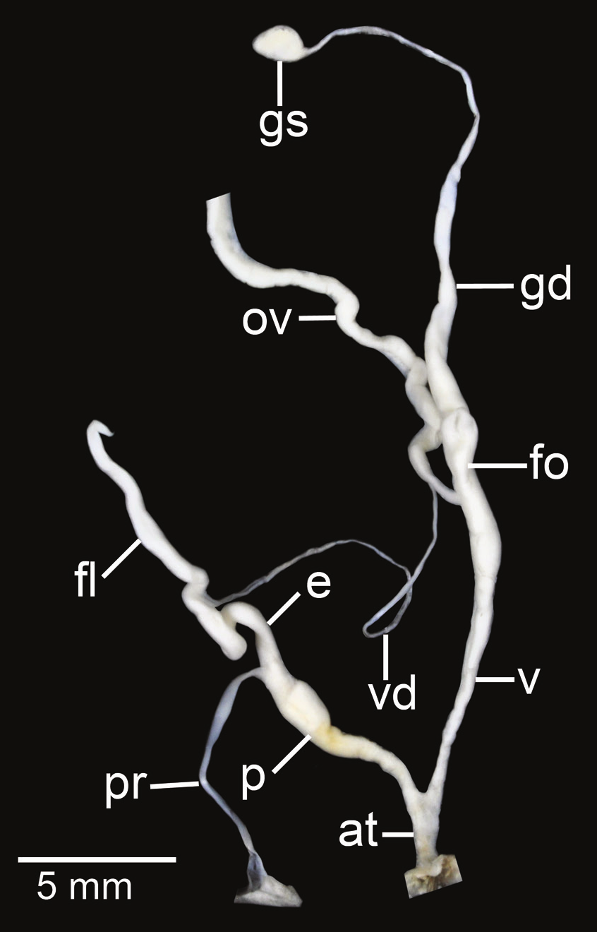 Photo of a reproductive system of Amphidromus fuscolabris from Ban Phone, Sekong, Laos (CUMZ 7041). Scale bar is 5 mm.